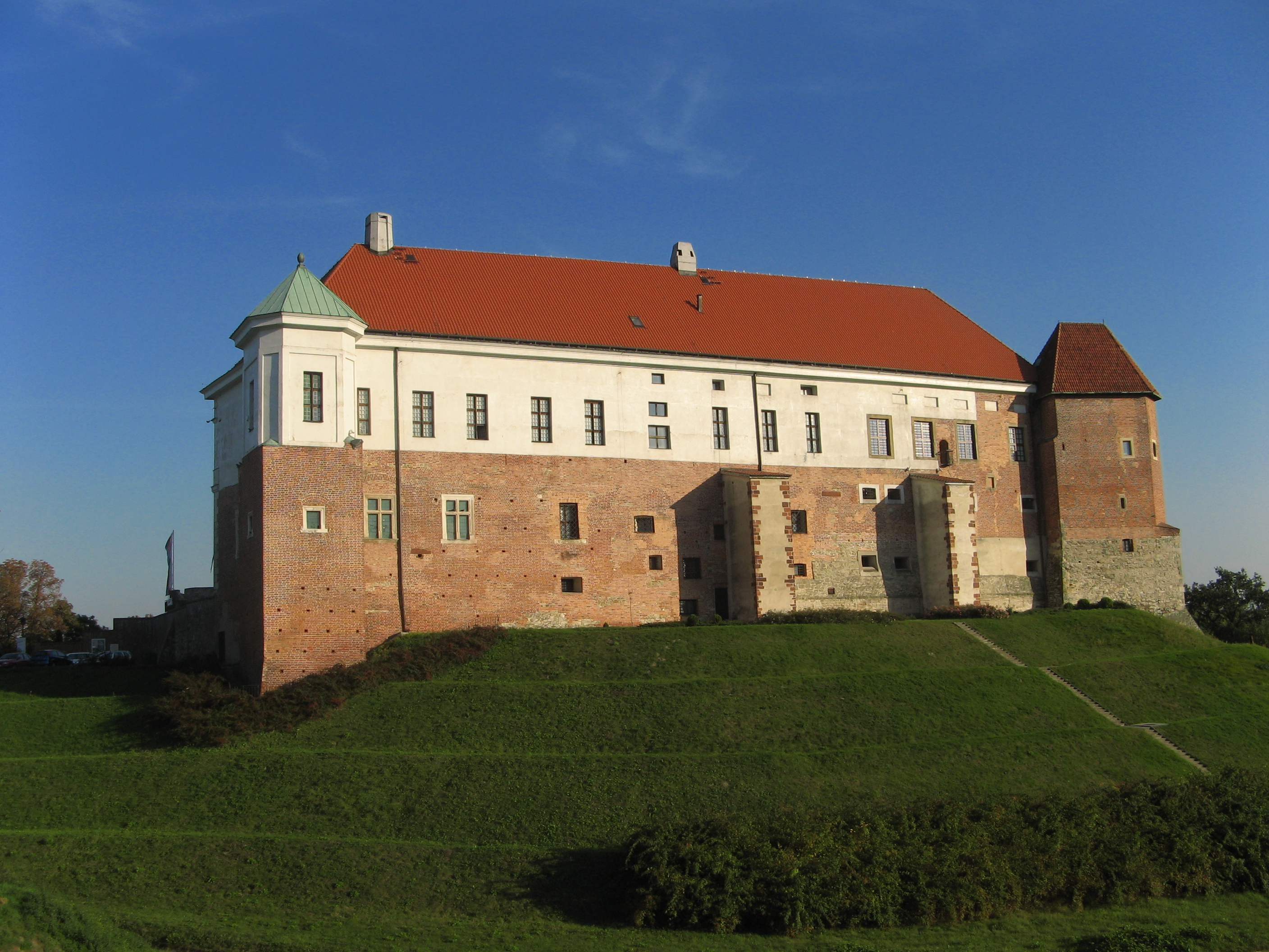 Sandomierz castle